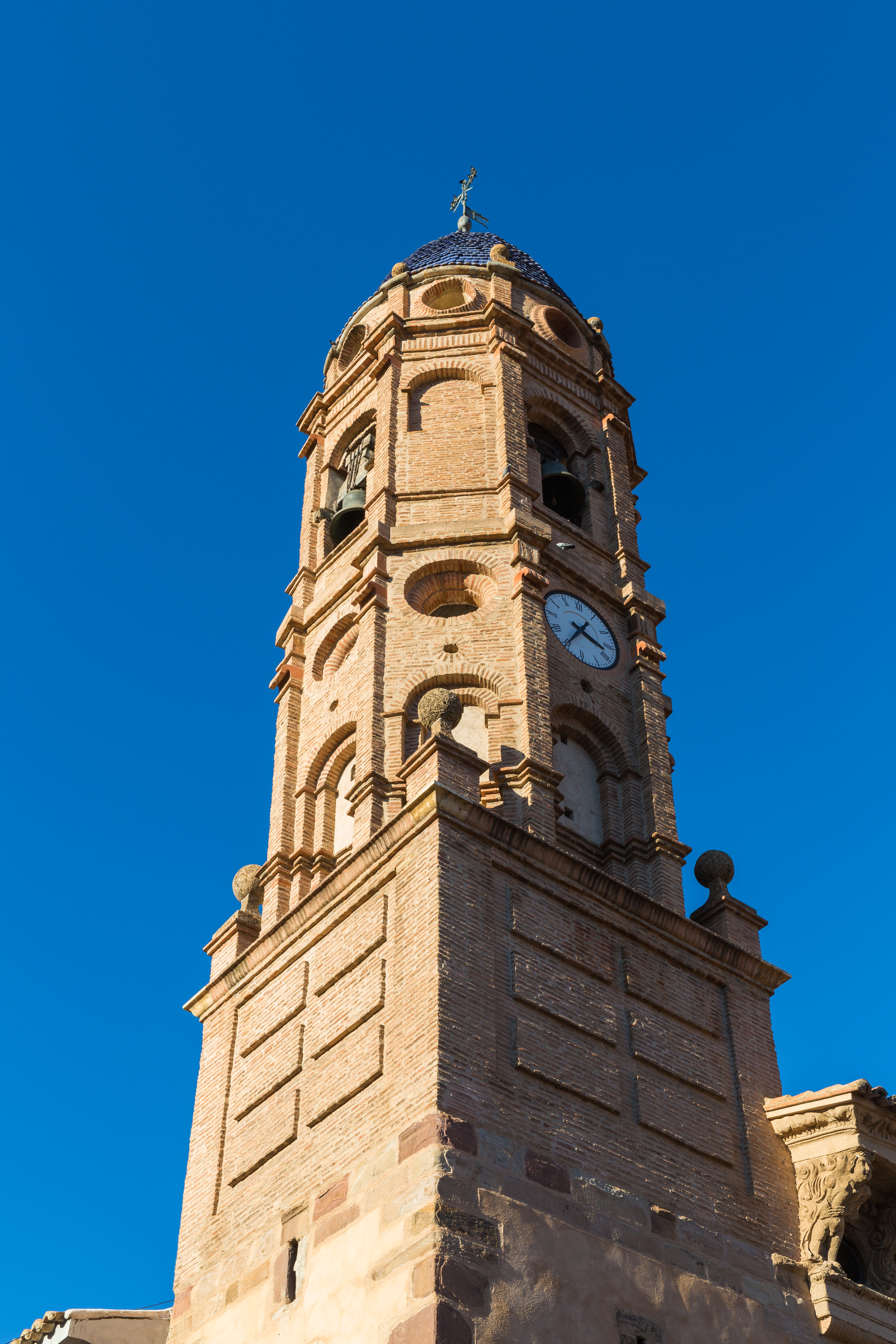 Church of Santa Ana, Morata de Jalón, Zaragoza, Spain